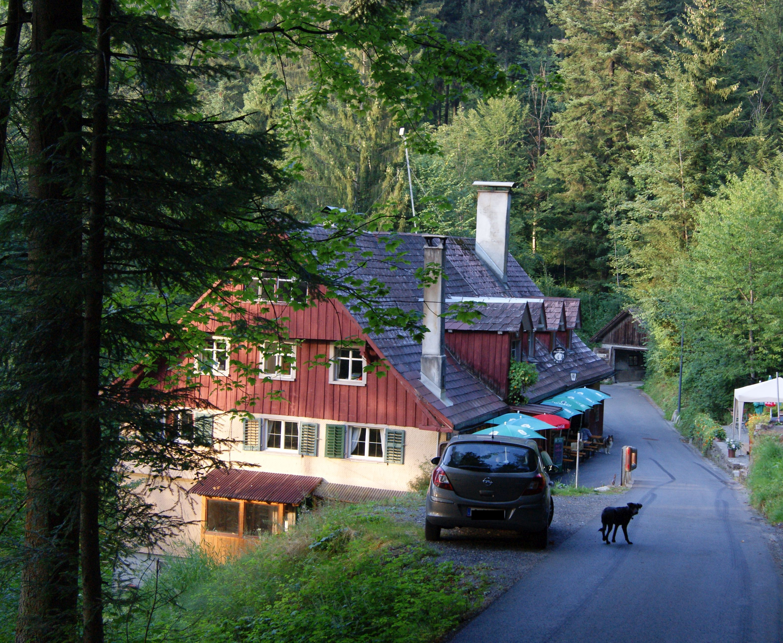 Spa Kehlegg in Kehlegg, Dornbirn, Vorarlberg, Austria.